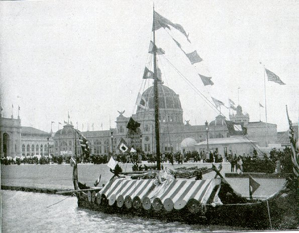 Viking Ship, 1893, Columbian Exposition. From either Shepp's World's Fair Photographer, Chicago and Philadelphia, 1893 or Glimpses of the World's Fair Through a Camera, Chicago, 1893.